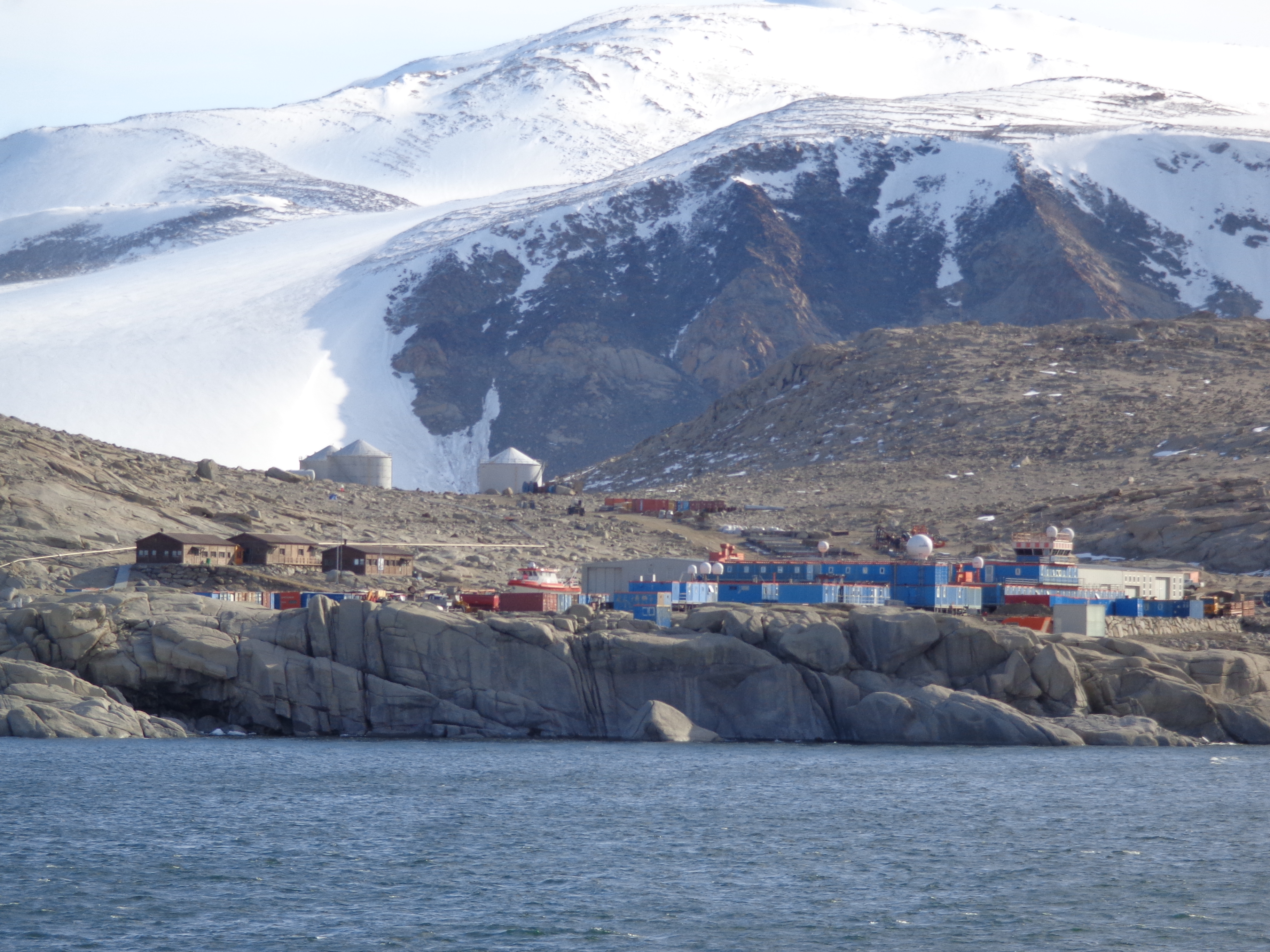 Mario Zucchelli Station, Terra Nova Bay, Antarctica